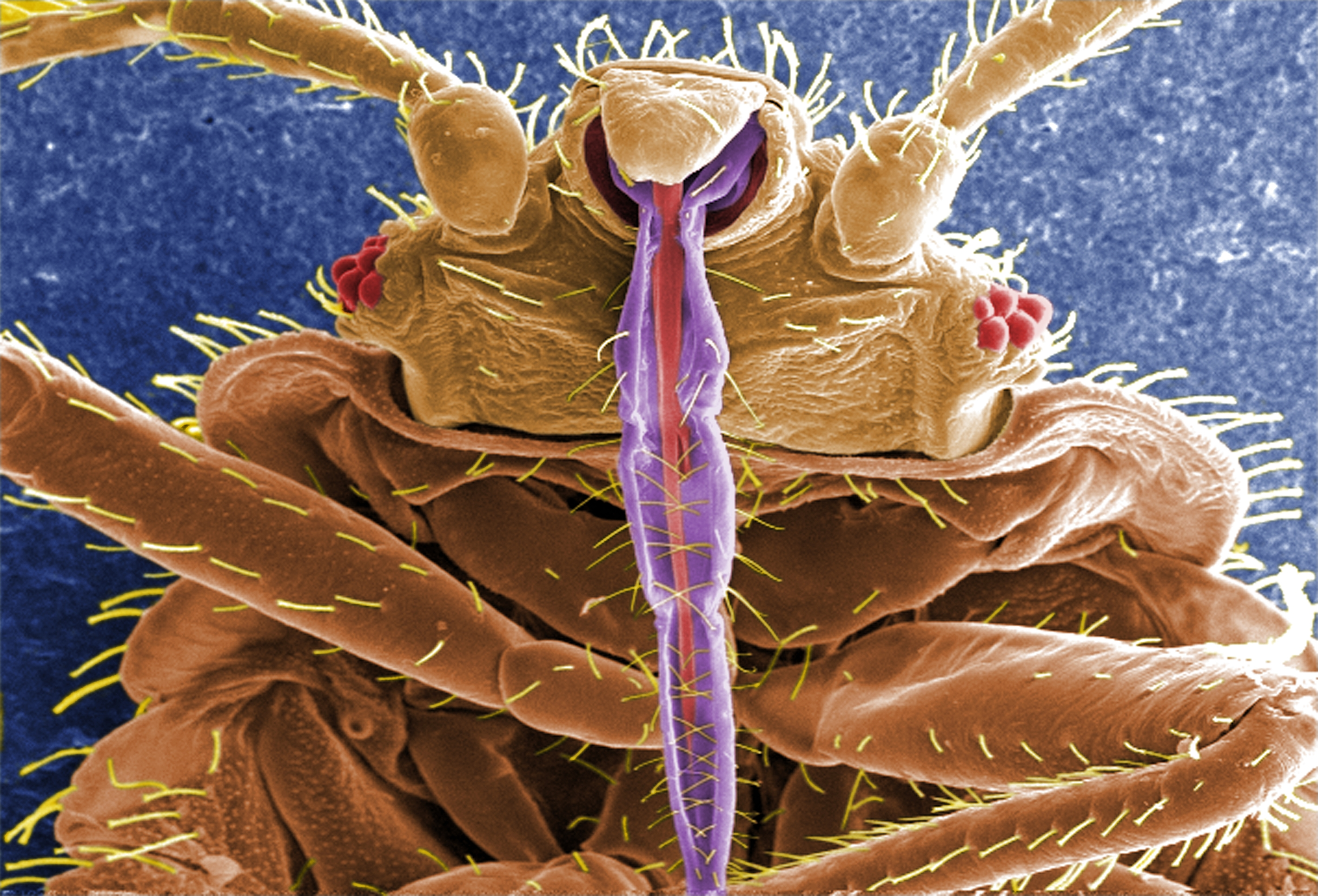 ID#: 11739 Description: This digitally-colorized scanning electron micrograph (SEM) revealed some of the ultrastructural morphology displayed on the ventral surface of a bedbug, Cimex lectularius. From this view you can see the insect’s skin piercing mouthparts it uses to obtain its blood meal, as well as a number of its six jointed legs.